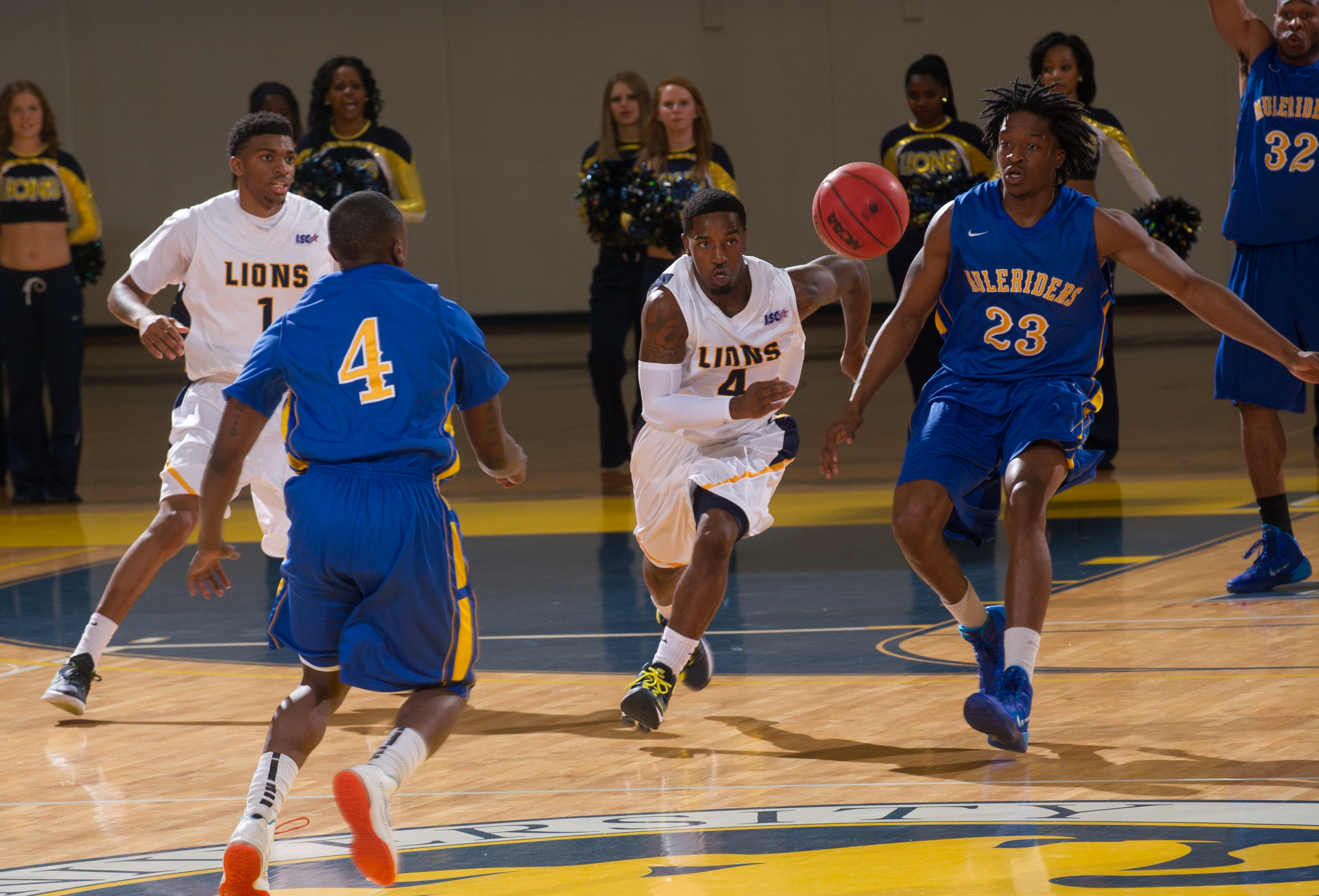 13420-Basketball vs Southern Arkansas-6754 2013–14 Texas A&M–Commerce Lions men's basketball team